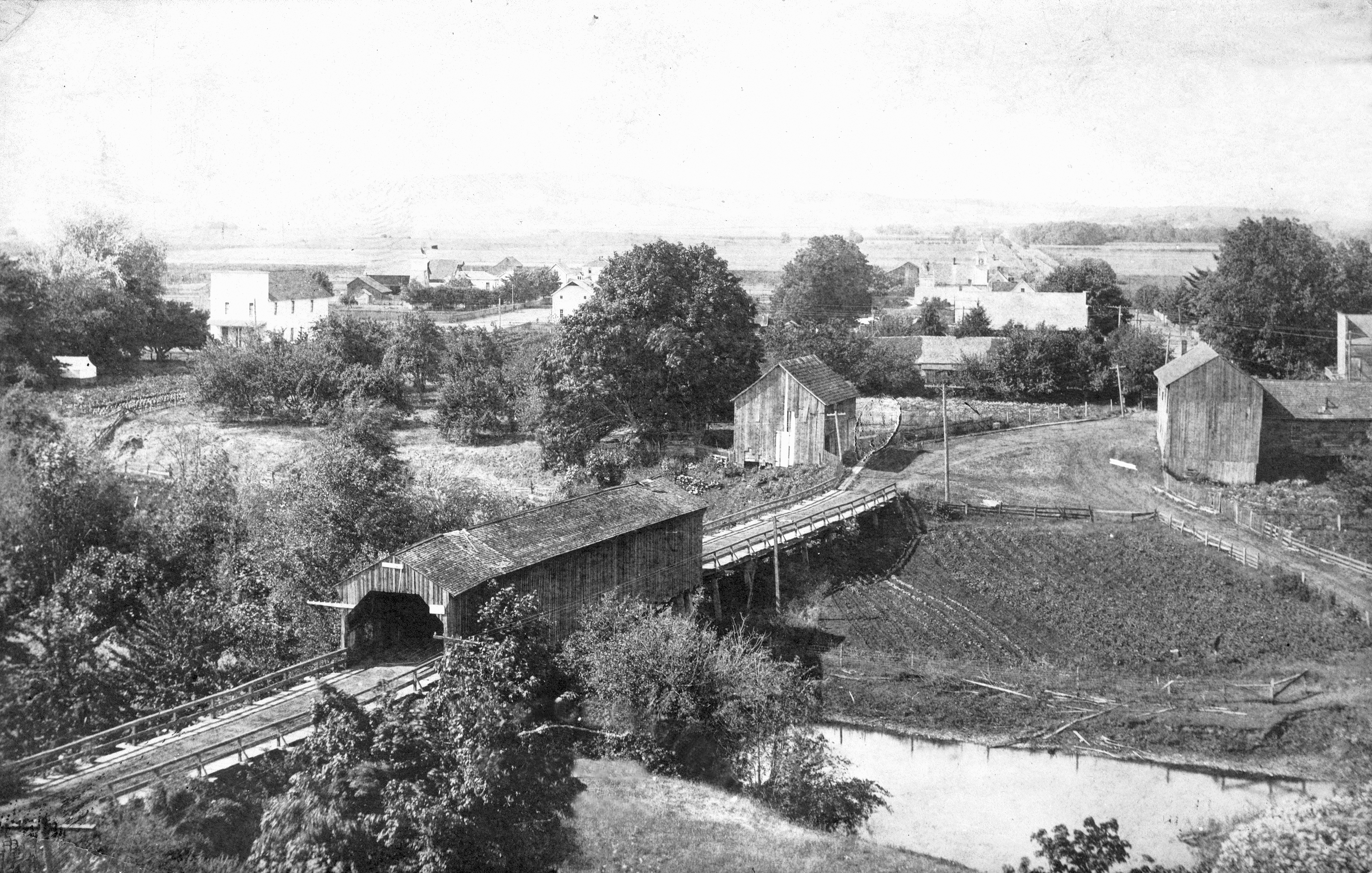 Item Number: WilliamsG:WV Rickreall Original Collection: Gerald W. Williams Collection You can find this image by searching for the item number by clicking here. Want more? You can find more digital resources online. We're happy for you to share this digital image within the spirit of The Commons; however, certain restrictions on high quality reproductions of the original physical version may apply. To read more about what “no known restrictions” means, please visit the Special Collections & Archives website, or contact staff at the OSU Special Collections & Archives Research Center for details.